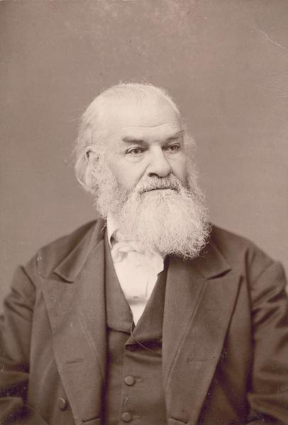 Studio portrait of Warren Chase, Fourierist and politician who served in the state senates of Wisconsin and California